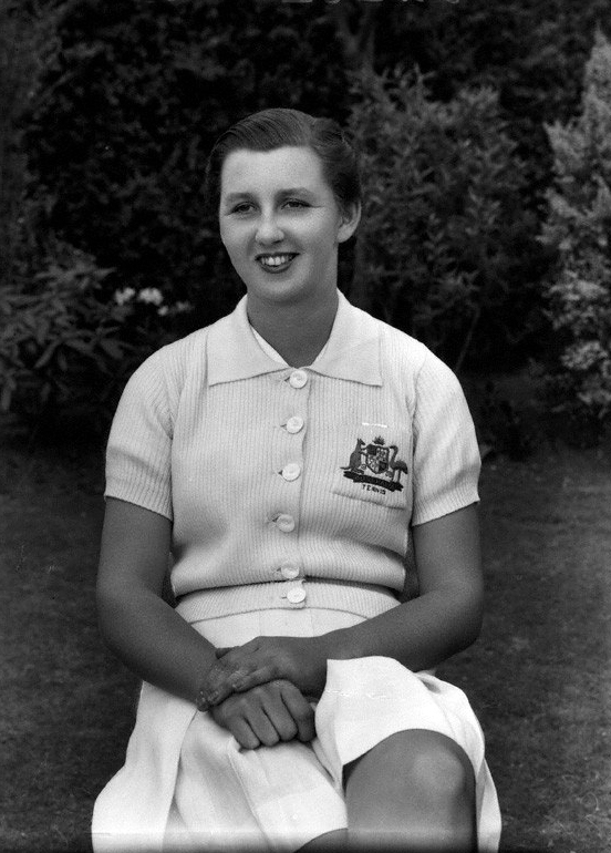 Australian tennis player Nancye Wynne Bolton by Bassano, half-plate film negative, 29 April 1938